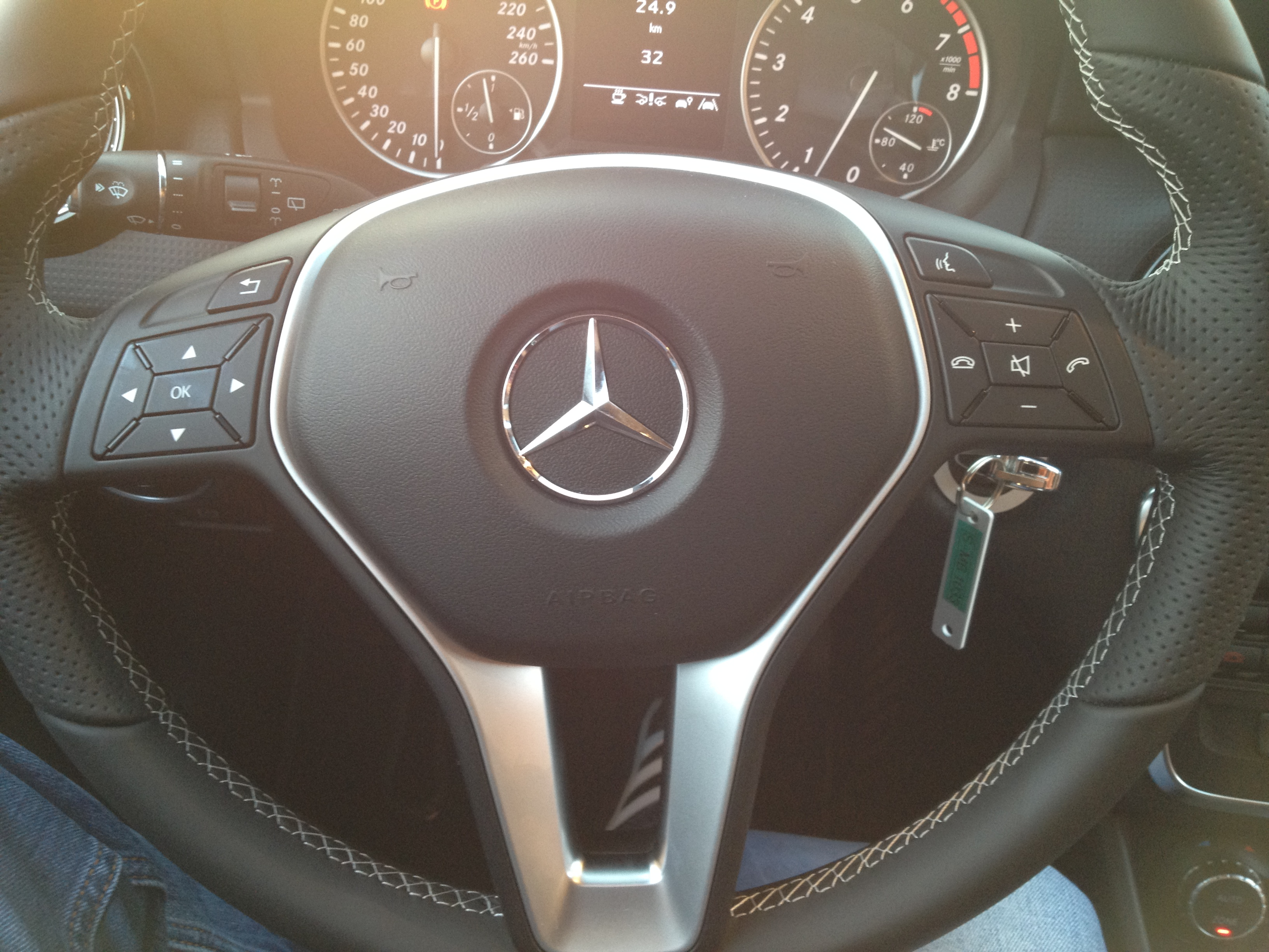 Mercedes A-Class 2012.